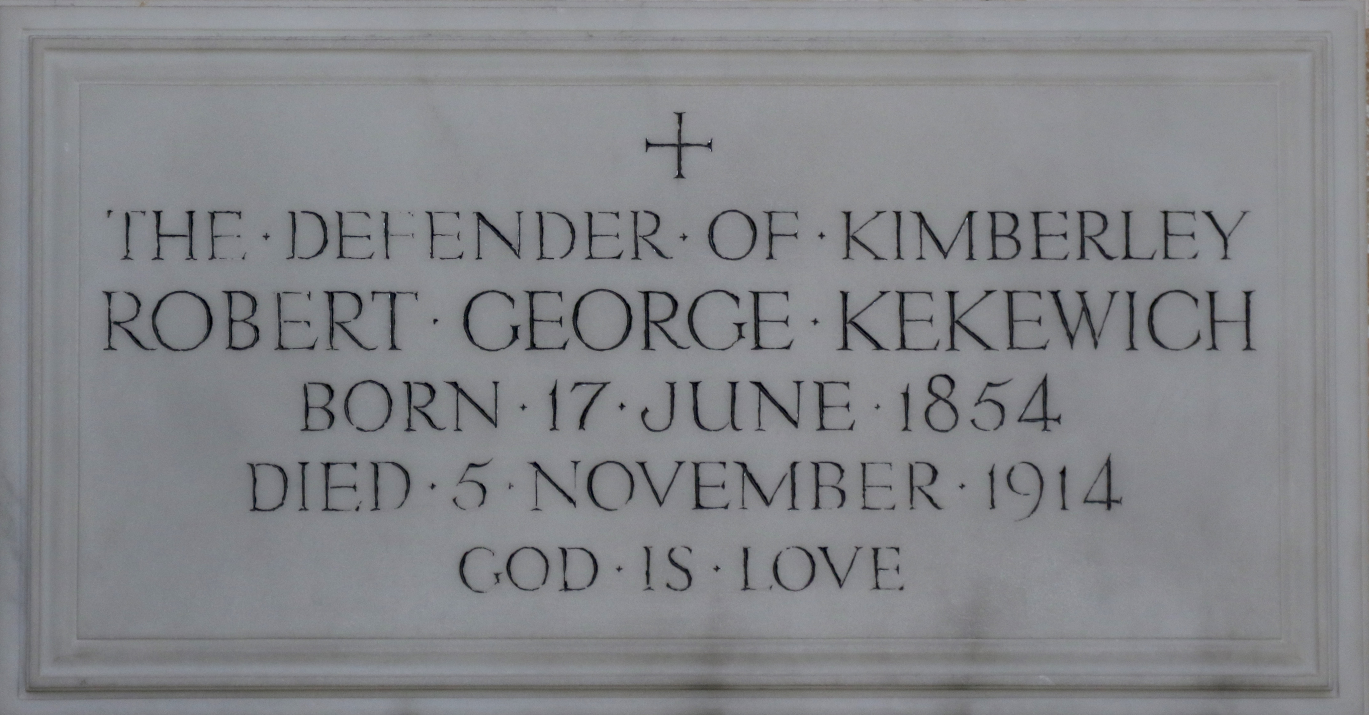 The defender of Kimberley. Robert George Kekewich Born 17 June 1854 Died 5 November 1914